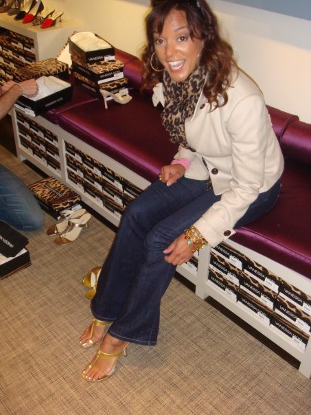 Eva Larue trying on shoes at the Vanessa Noel boutique in New York. Photo taken by Michael Thom for Vanessa Noel.